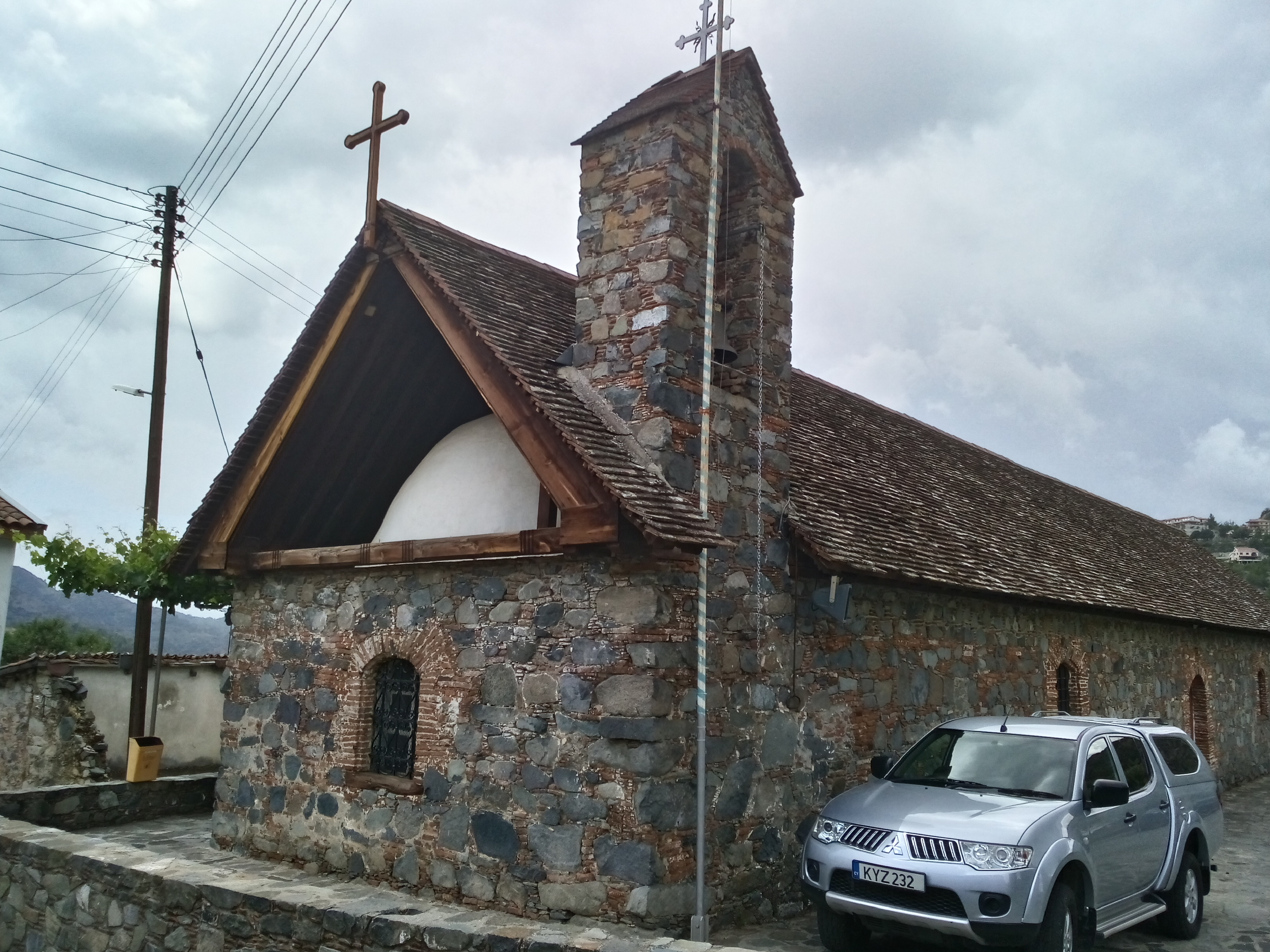 church of “Timios Prodromos” , Agros, Cyprus